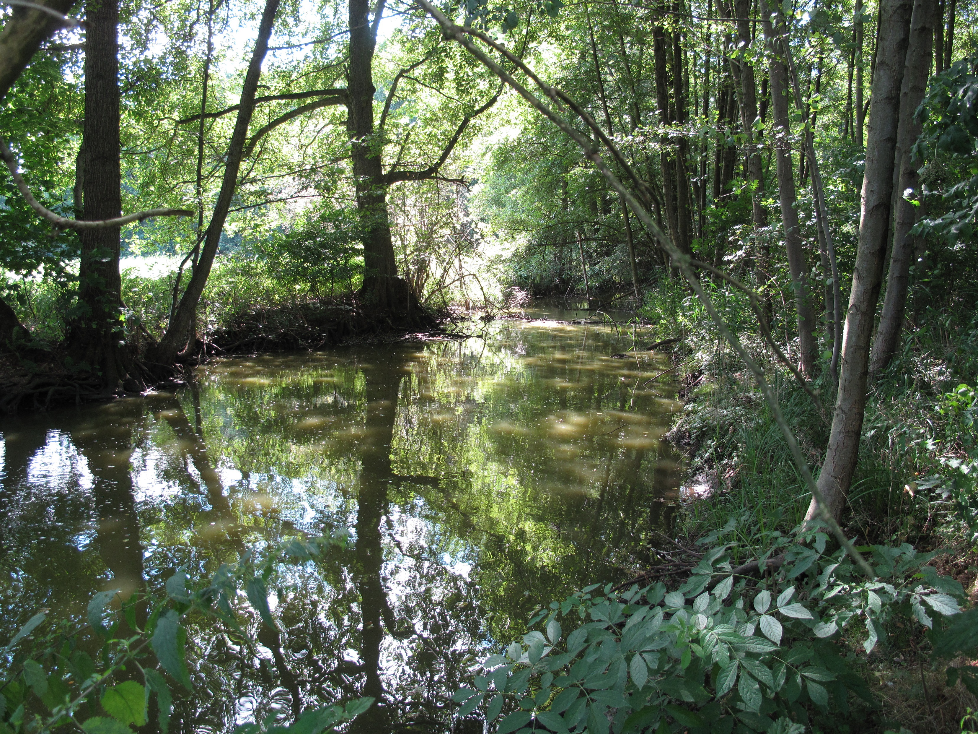 Stahnsdorfer Fließ in the Naturschutzgebiet Storkower Kanal. The „Naturschutzgebiet Storkower Kanal “ is a Naturschutzgebiet (protected area) and Natura 2000-area in the districts Oder-Spree and Dahme-Spreewald in Brandenburg, Germany. The area covers about 97 hectare and is situated in the Dahme-Heideseen Nature Park. It is nestled along the „Stahnsdorfer Fließ“ (little stream) and along the west part of the eponymous Storkower Kanal (water canal).